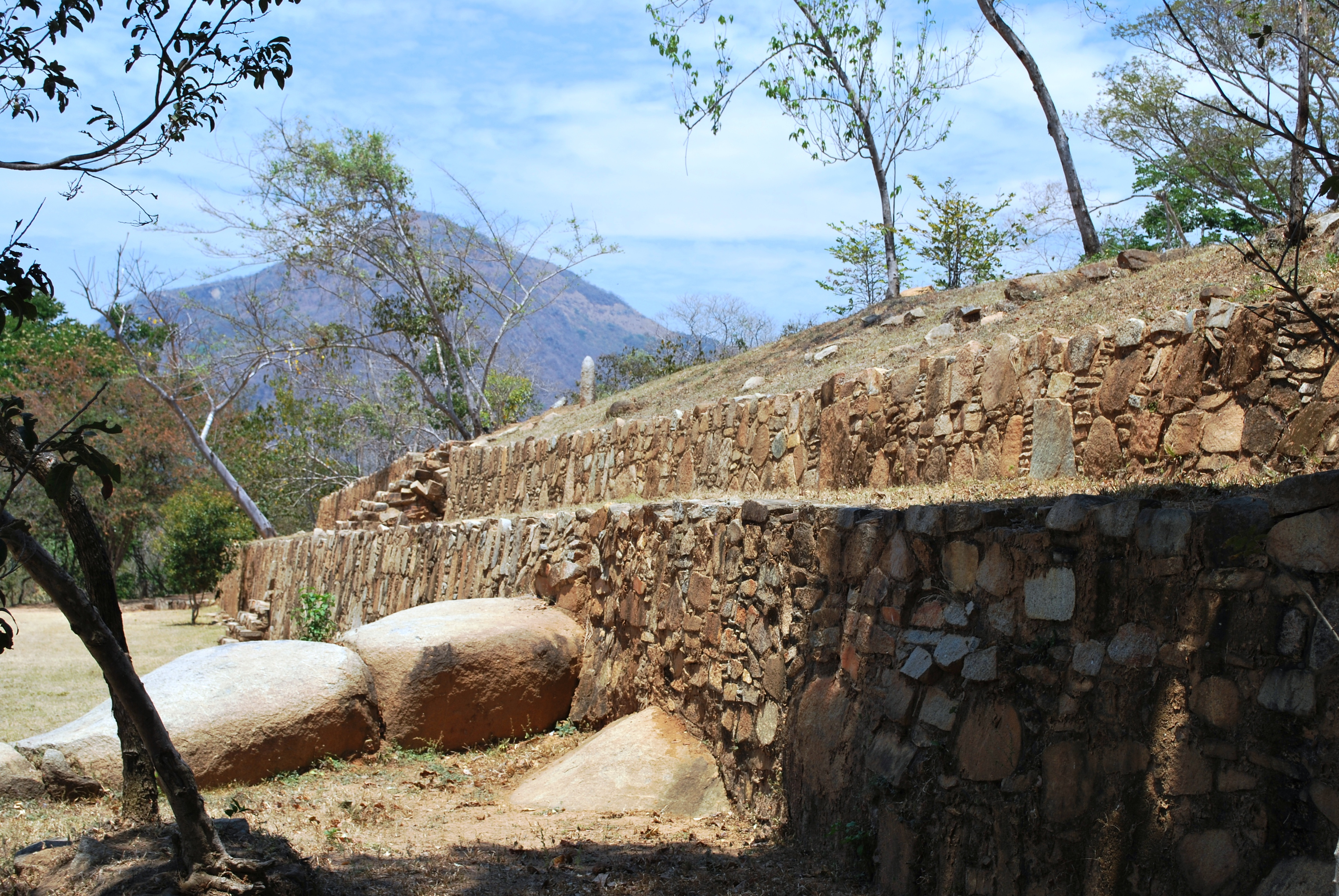 Front of the Palace at Tehuacalco